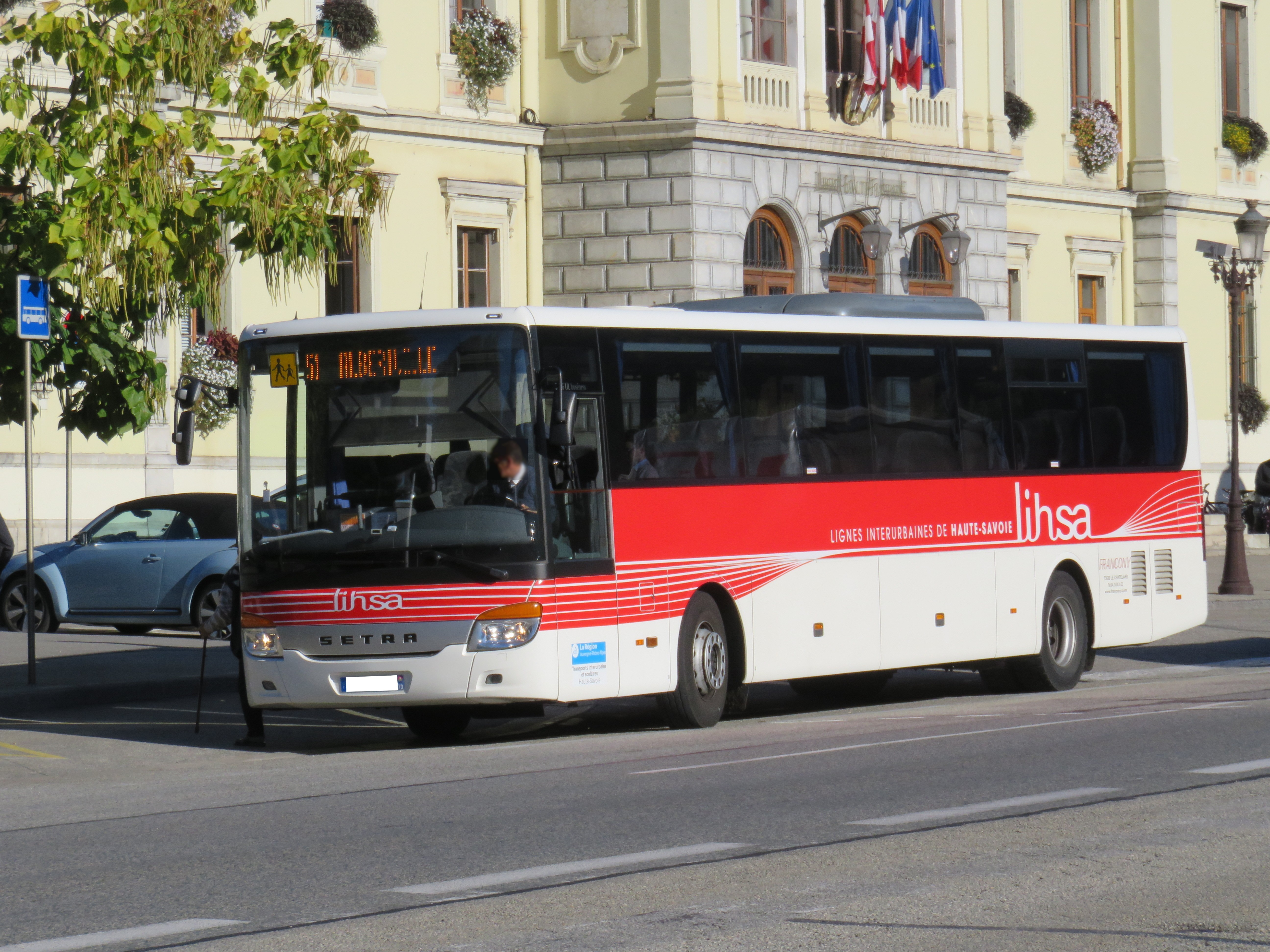 A Setra S 416 UL business (Francony), carrying out the line 51 of the bus network LIHSA — Gare routière, Annecy↔Gare routière, Albertville — and stopped at the call Hôtel de Ville (Albertville, France) on September 28, 2018.